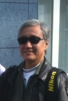 The Sukhoi Head of Flight Operations Department (Sukhoi Civil Aircraft ), Mr.Alexander Yablontsev with the most famous Aviation Photographer in the world Mr. Katsuhiko Tokunaga